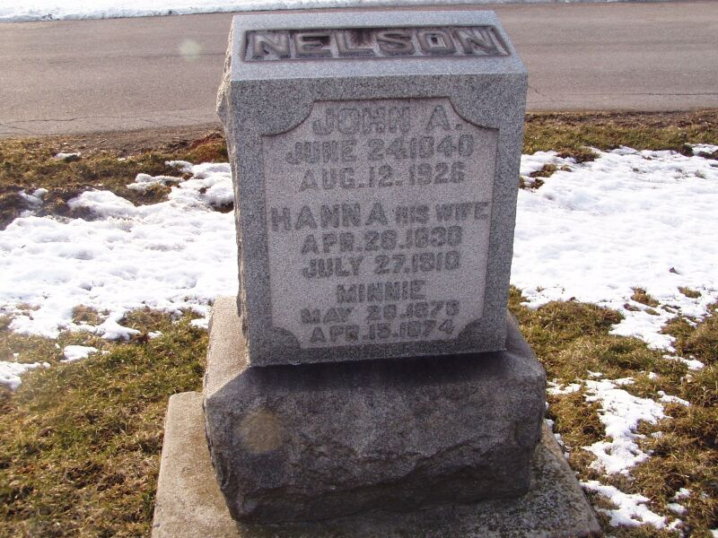 Charles Nelson's Tombstone, Augsburg Cemetery, Porter, Indians